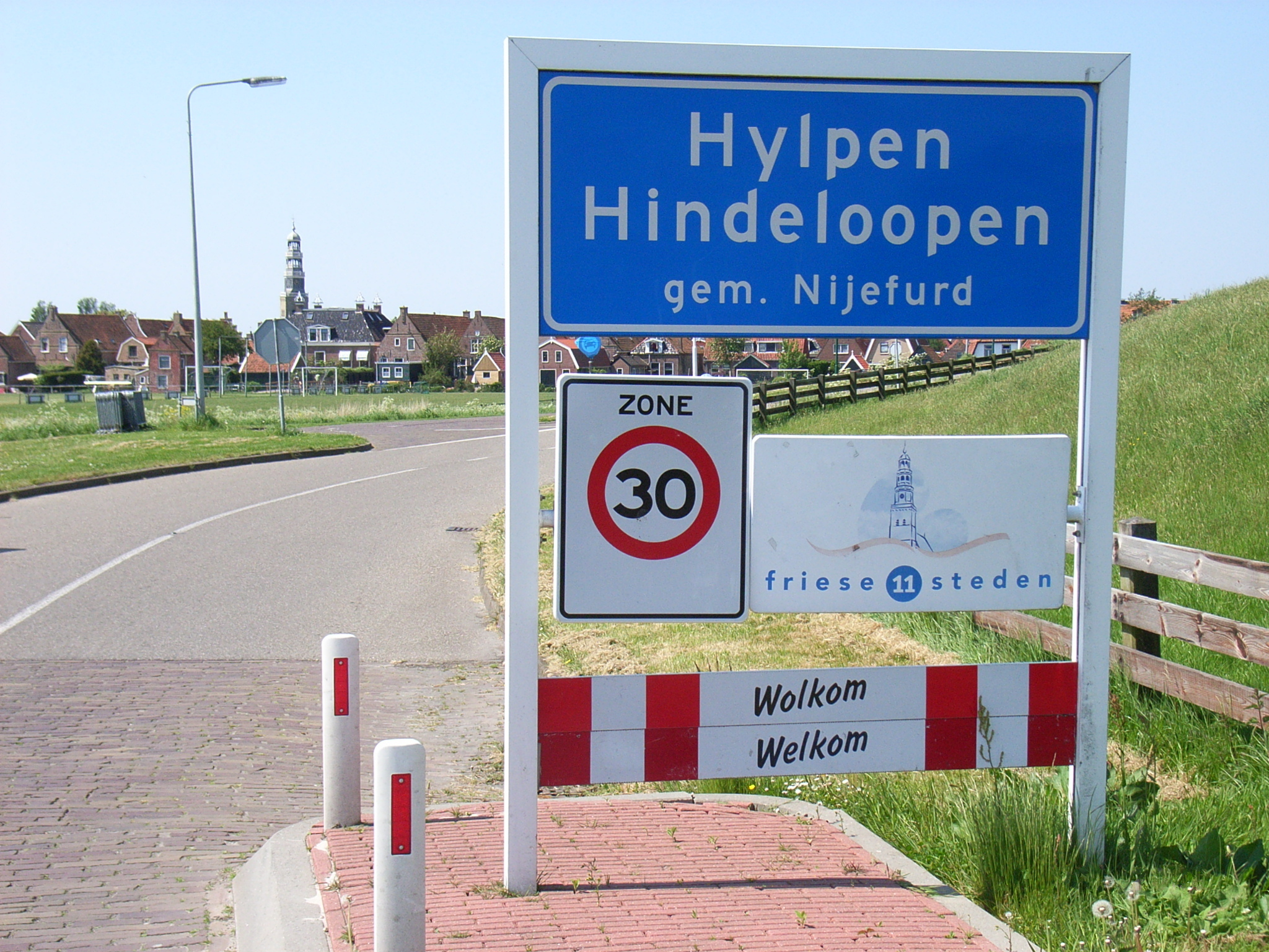 Picture of bilingual signs in Friesland / Netherlands, Hindeloopen, Fryslân